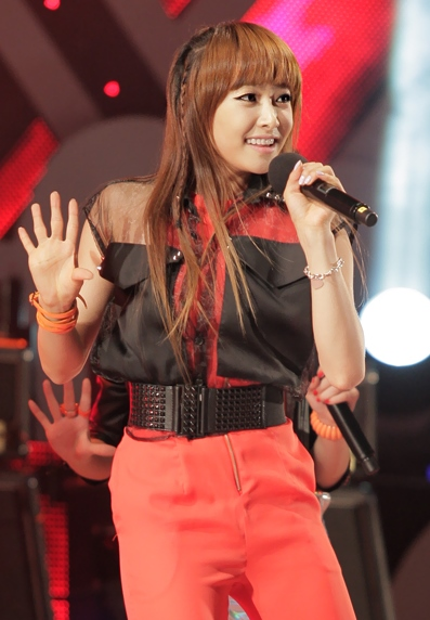 Victoria Song at the Music Show in Seoul Plaza on July 4, 2011.